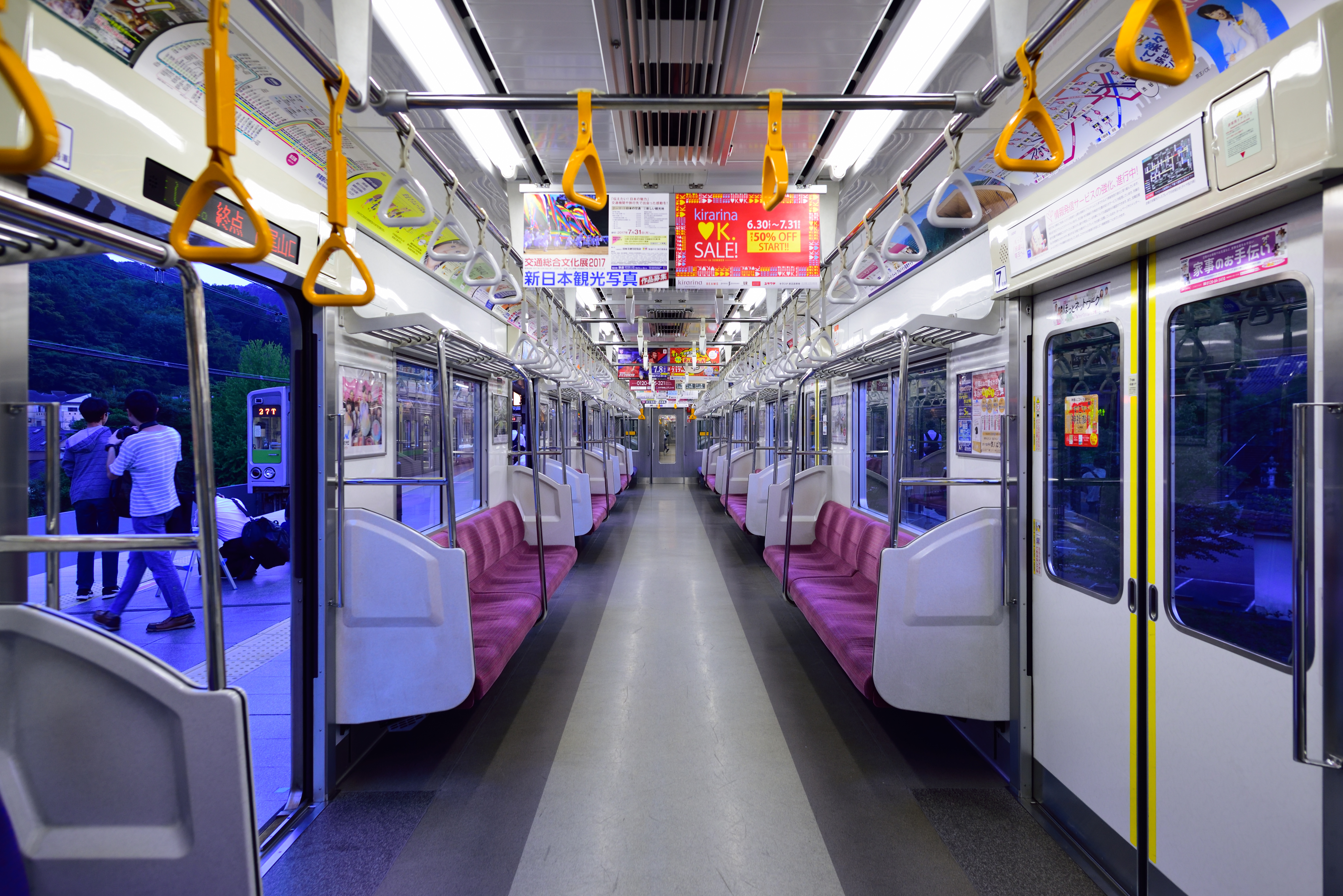 The interior of a Keio 9000 series EMU at Takao Station